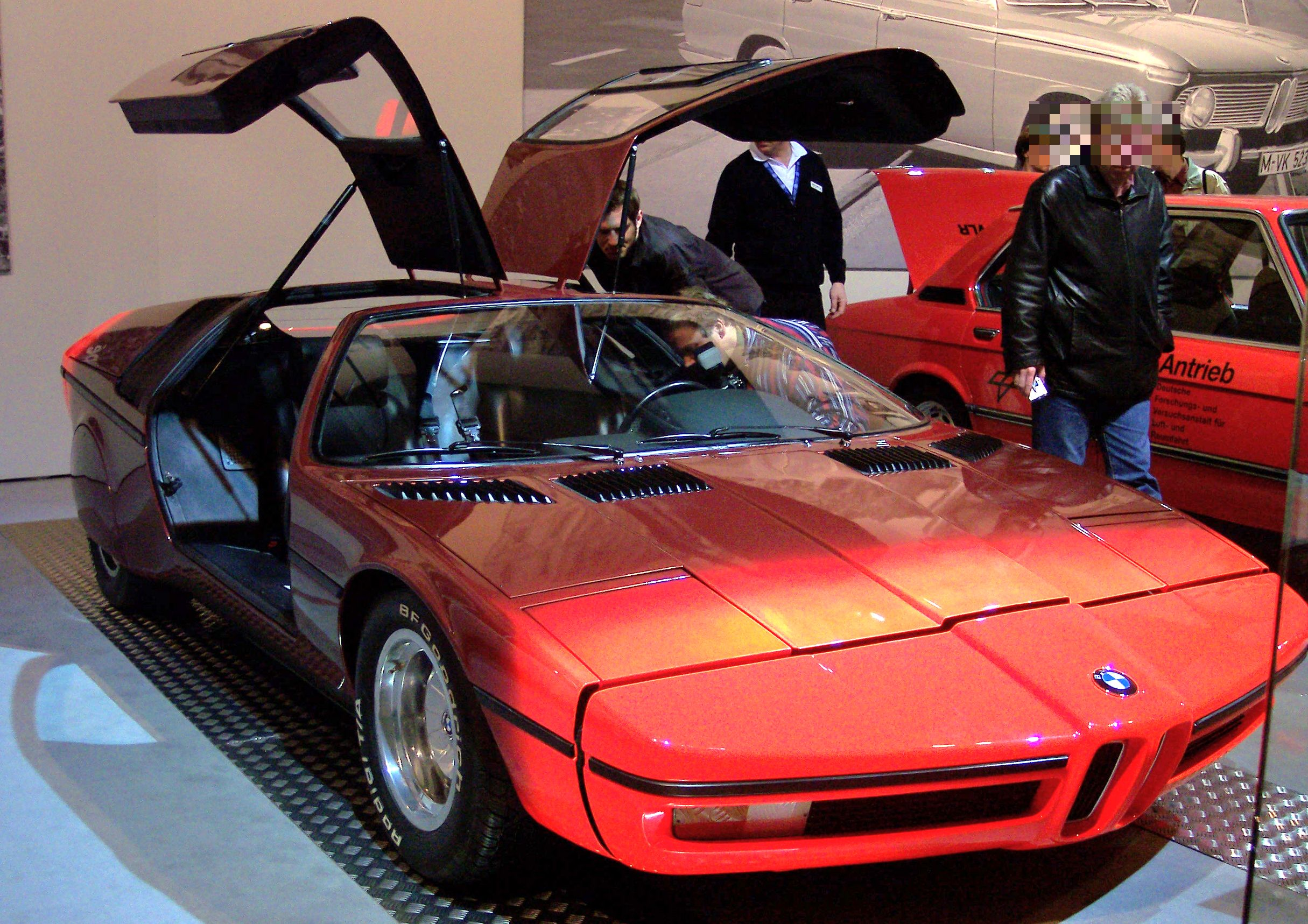 Essen Techno-Classica 2007, BMW Turbo, build 1972